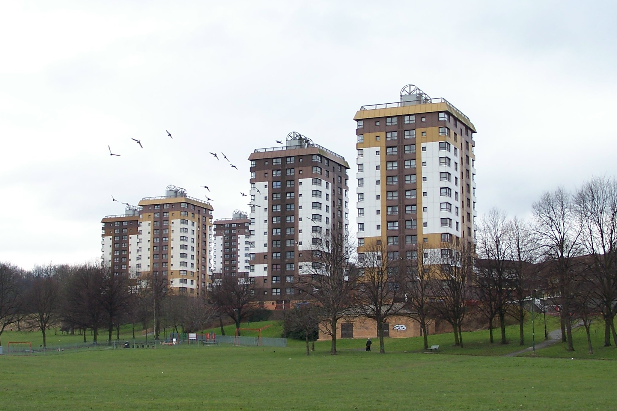 Upperthorpe Tower Blocks, viewed from The Ponderosa, Sheffield. This picture shows five of the seven Tower Blocks in this area ... the other two are off to the right. They were constructed in the 1960's as part of the re-development of the area known as Port Mahon, which was an area of back-to-back terraced houses. The Tower Blocks were re-clad and 'titivated' in the 1990's and still look in 'good fettle' to me. The grassed area in front is known locally (and now officially) as The Ponderosa ... see this link The birds are a flock of Pigeons which seem to like gathering together on a nearby roof. 1720750 1720869